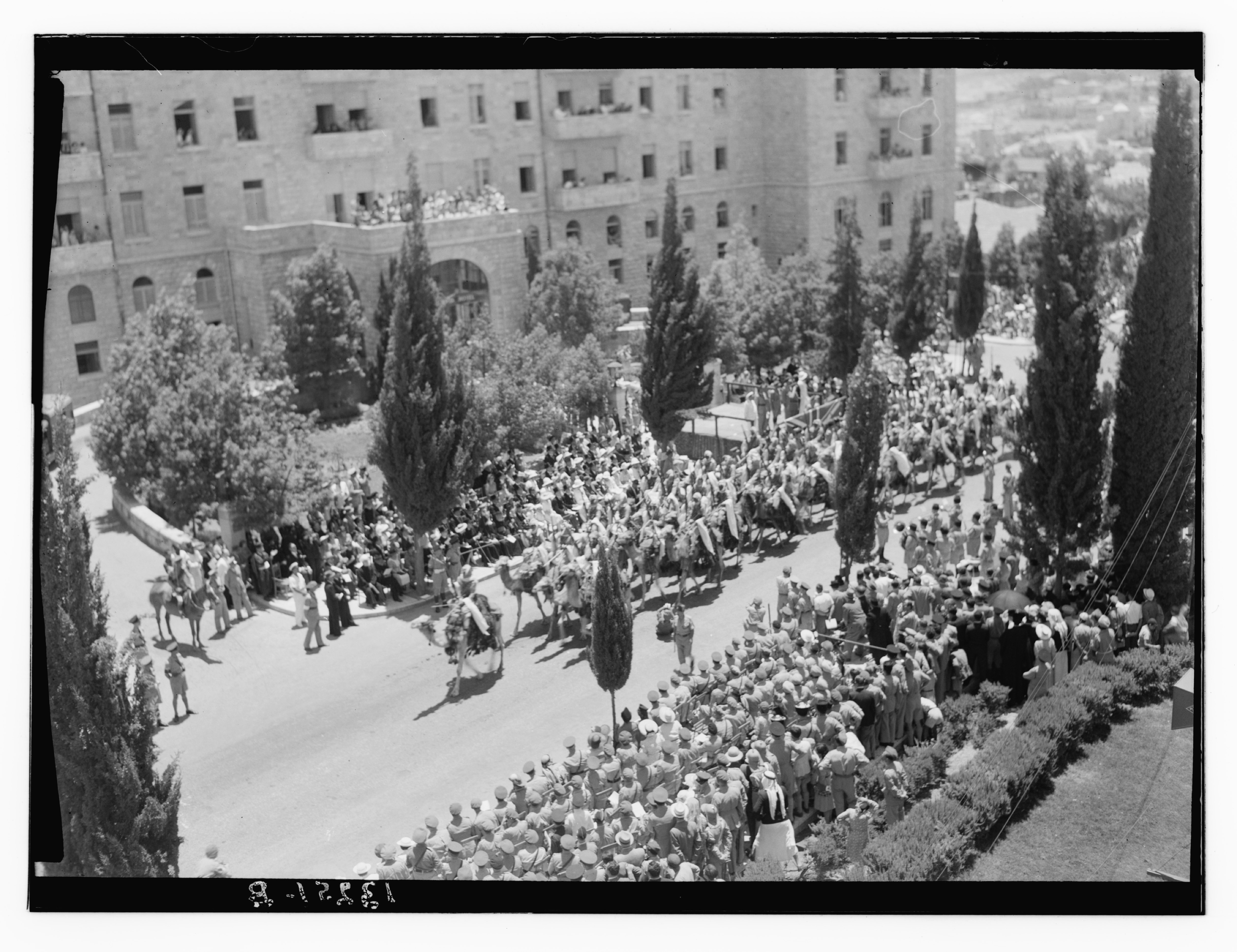 Title: King George VI, birthday parade & presentations, June 14, 1945 Abstract/medium: G. Eric and Edith Matson Photograph Collection Physical description: 1 negative